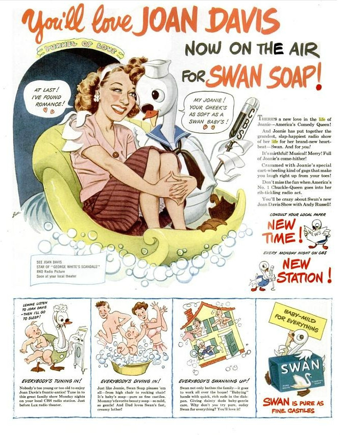 Swan Soap ad featuring Joan Davis and her radio show. Licensing Note-this is a copy of the ad from Life which has no copyright marks, making it possible to change the file from non-free to PD-pre 1978.